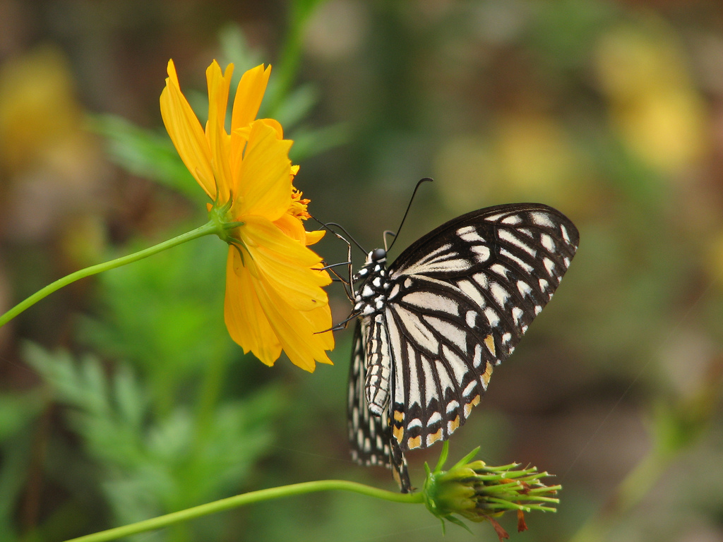 Common Mime, Chilasa clytia form dissimilis, Family Papilionidae. An Indian Butterfly. Photographed by Dinkar Raj at Cochin Kerala. Contact him at (dinkar_raj_1975(at) ). Very kindly donated by Dinkar Raj for use in Indian butterflies wikibase and for putting up in Wikimedia Commons. Self work. Uploaded by Nature Loader 18:03, 10 May 2006 (UTC) on his behalf.